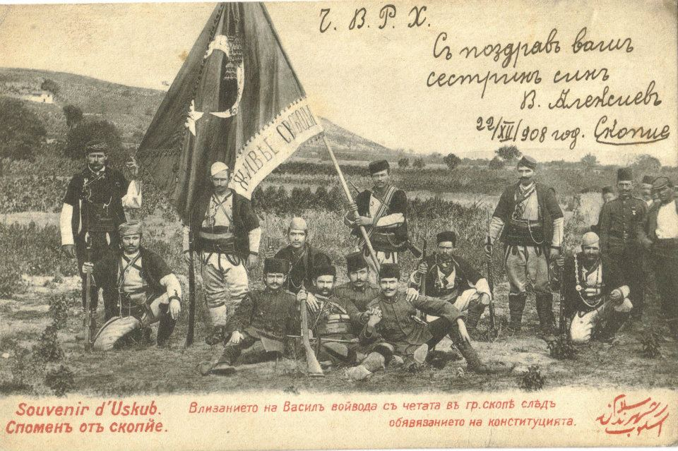 Cheta of Vasil Adzhalarski during the Young turks revolution